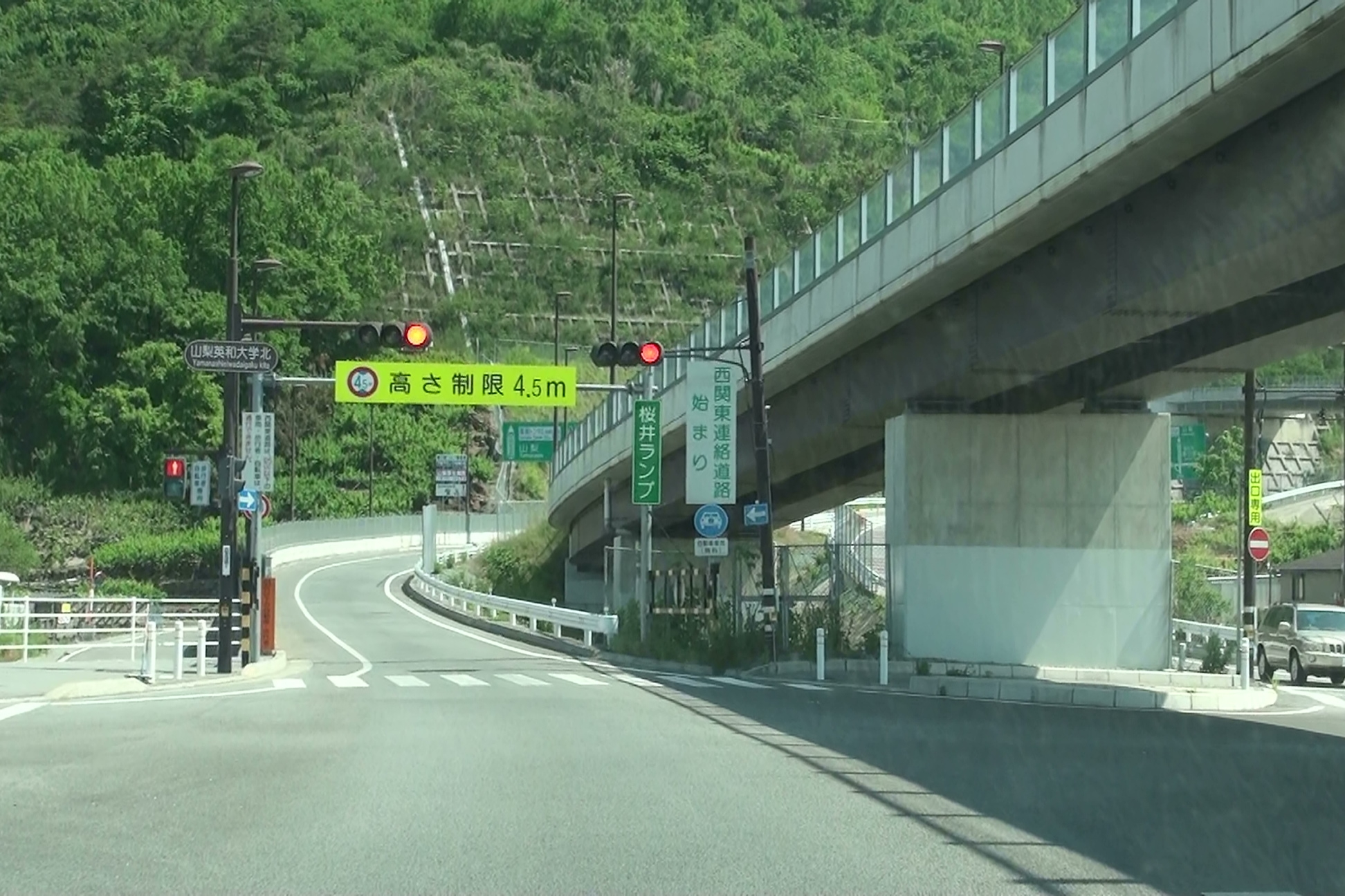 Kofu-Yamanashi road Sakurai-ramp